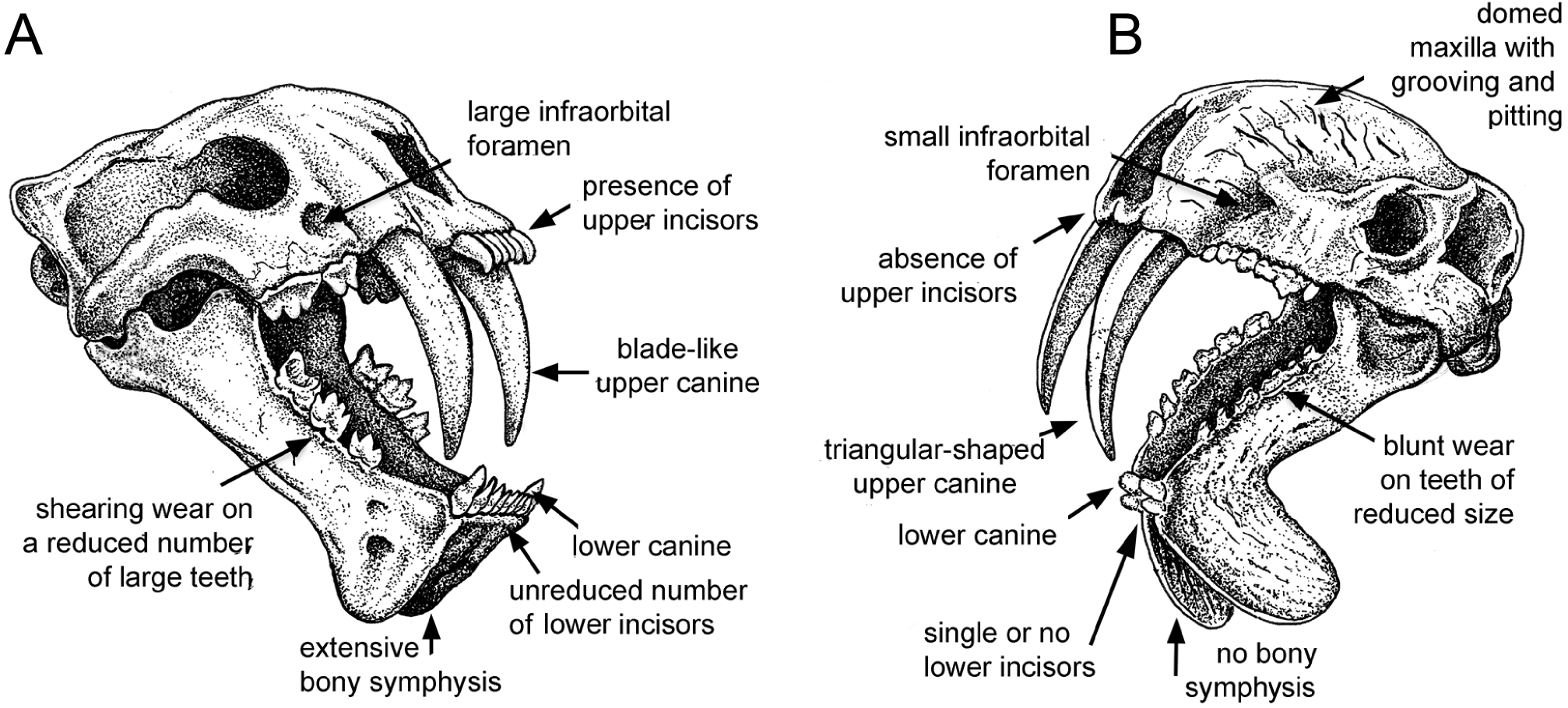 Comparison of sabre-tooth skull morphologies. (A) Skull of the felid saber–tooth Megantereon cultridens. (B) Skull of the “marsupial saber–tooth” Thylacosmilus atrox. Comparisons of saber–toothed skulls are usually portrayed in lateral view: this three-quarter view better illustrates the differences between these two animals (the splaying of the mandibles in T. atrox is exaggerated for effect). See text for more details.